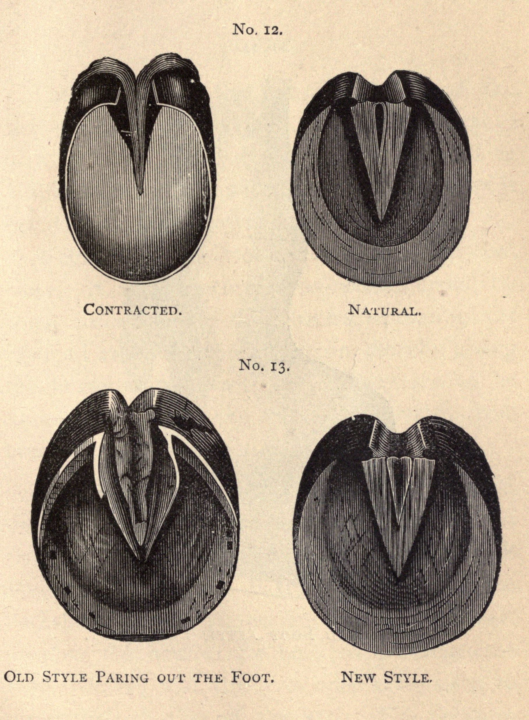 Illustration from the book given under "Source"